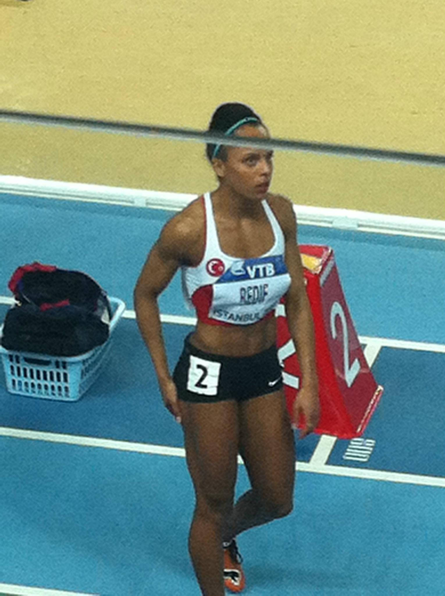 Meliz Redif